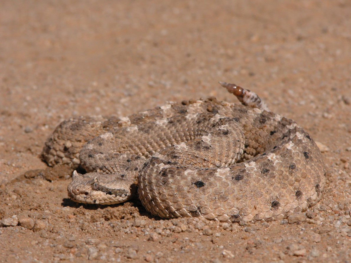 Crotalus cerastes — common names: Horned rattlesnake, Sidewinder rattlesnake, Mojave rattlesnake . This poisonous snake is one of the many reptiles native to the Mojave Desert, California. Non-poisonous Mojave Desert snakes include the California kingsnake and the Western gopher snake.